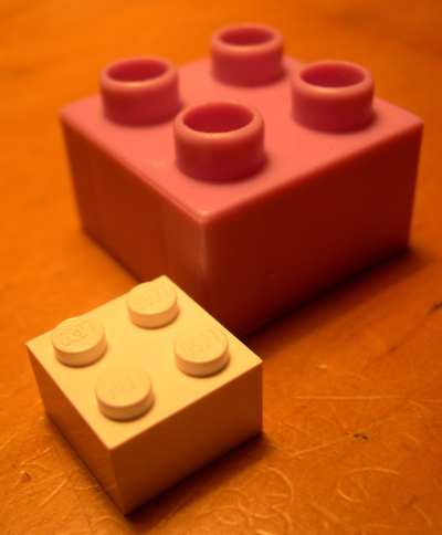 Lego took the original lego brick and magnified it to create the Duplo range.